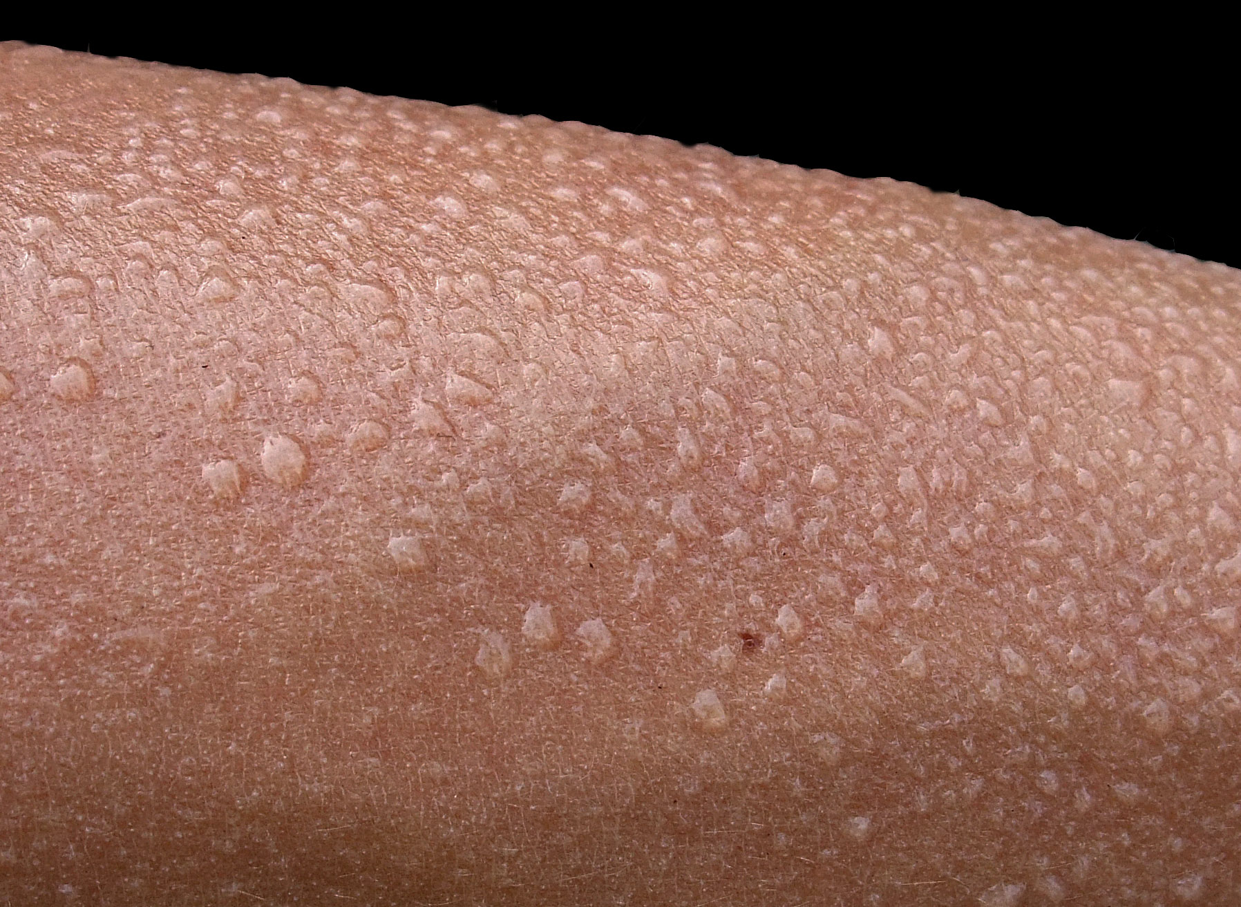 Photo of sweating at Wilson Trail Stage 1